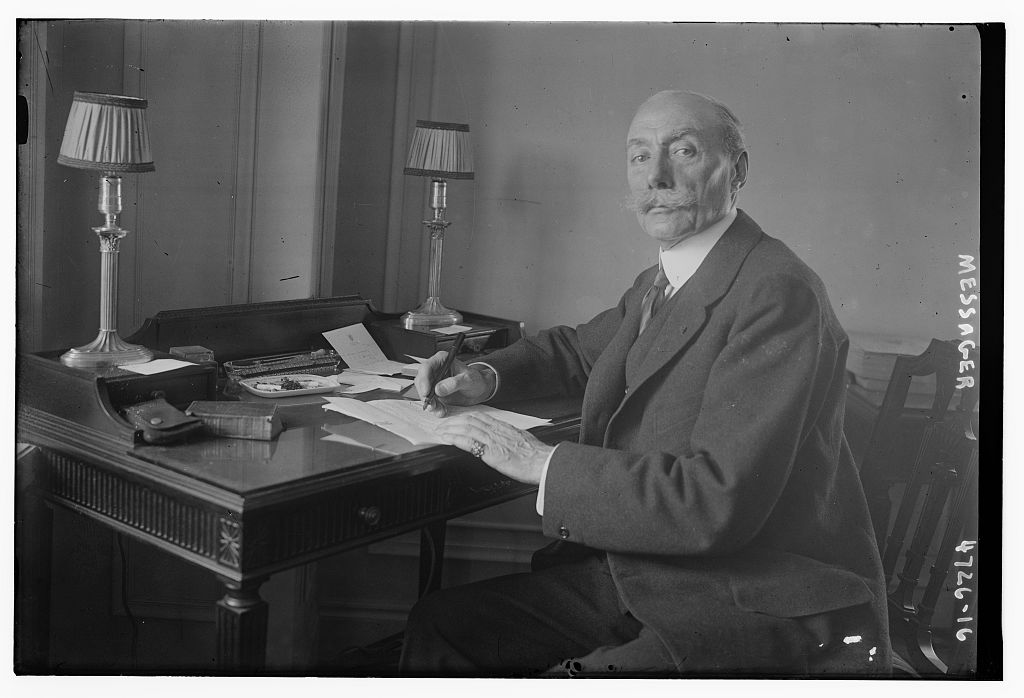 Bain News Service,, publisher. Messager [between ca. 1915 and ca. 1920] 1 negative : glass ; 5 x 7 in. or smaller. Notes: Title from unverified data provided by the Bain News Service on the negatives or caption cards. Forms part of: George Grantham Bain Collection (Library of Congress). Format: Glass negatives. Repository: Library of Congress, Prints and Photographs Division, Washington, D.C. 20540 USA, General information about the Bain Collection is available at Higher resolution image is available (Persistent URL): Call Number: LC-B2- 4726-16